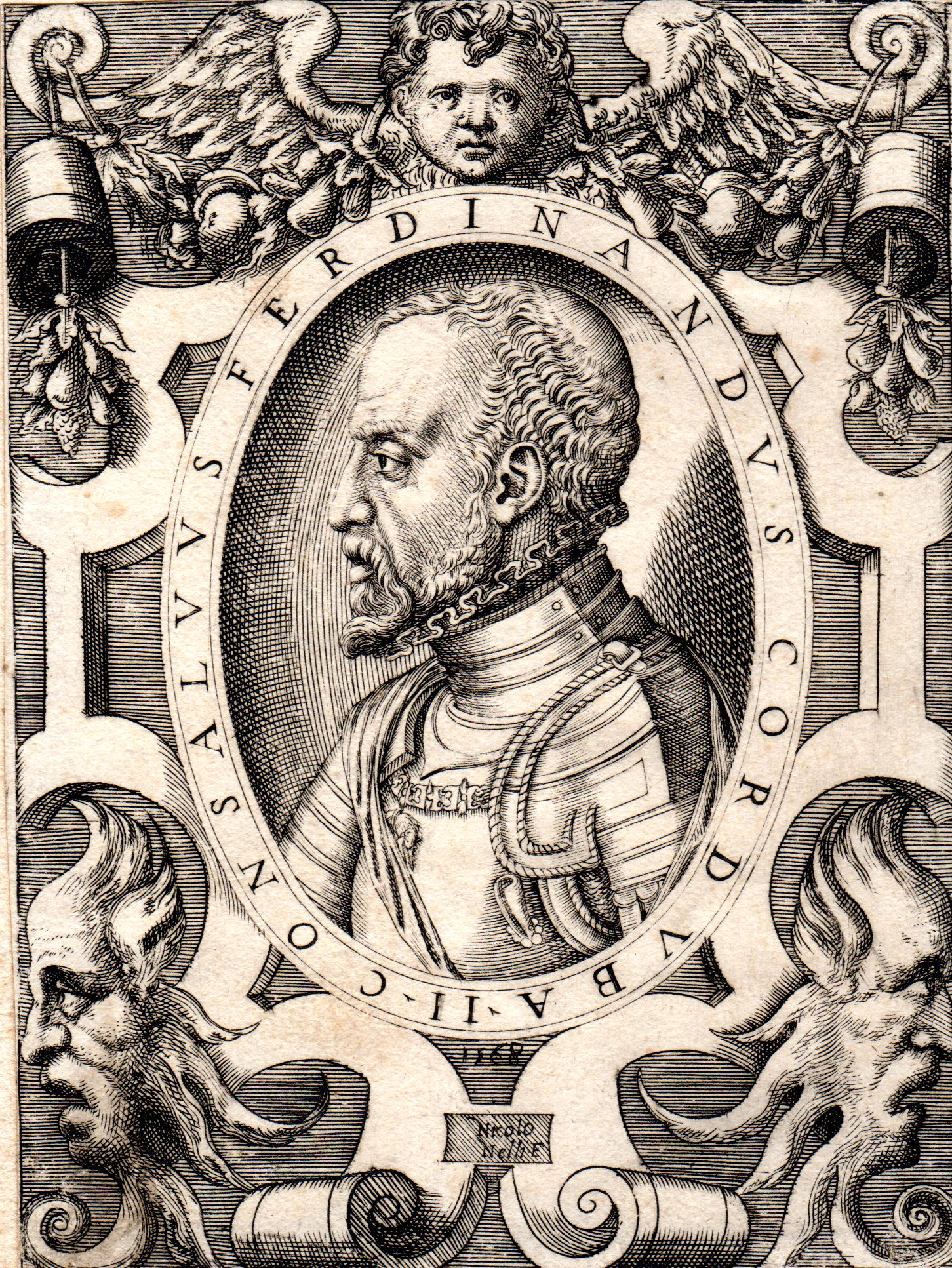 Consaluus Ferdinandus Corduba II - Etching by Nicolo Nelli 1568